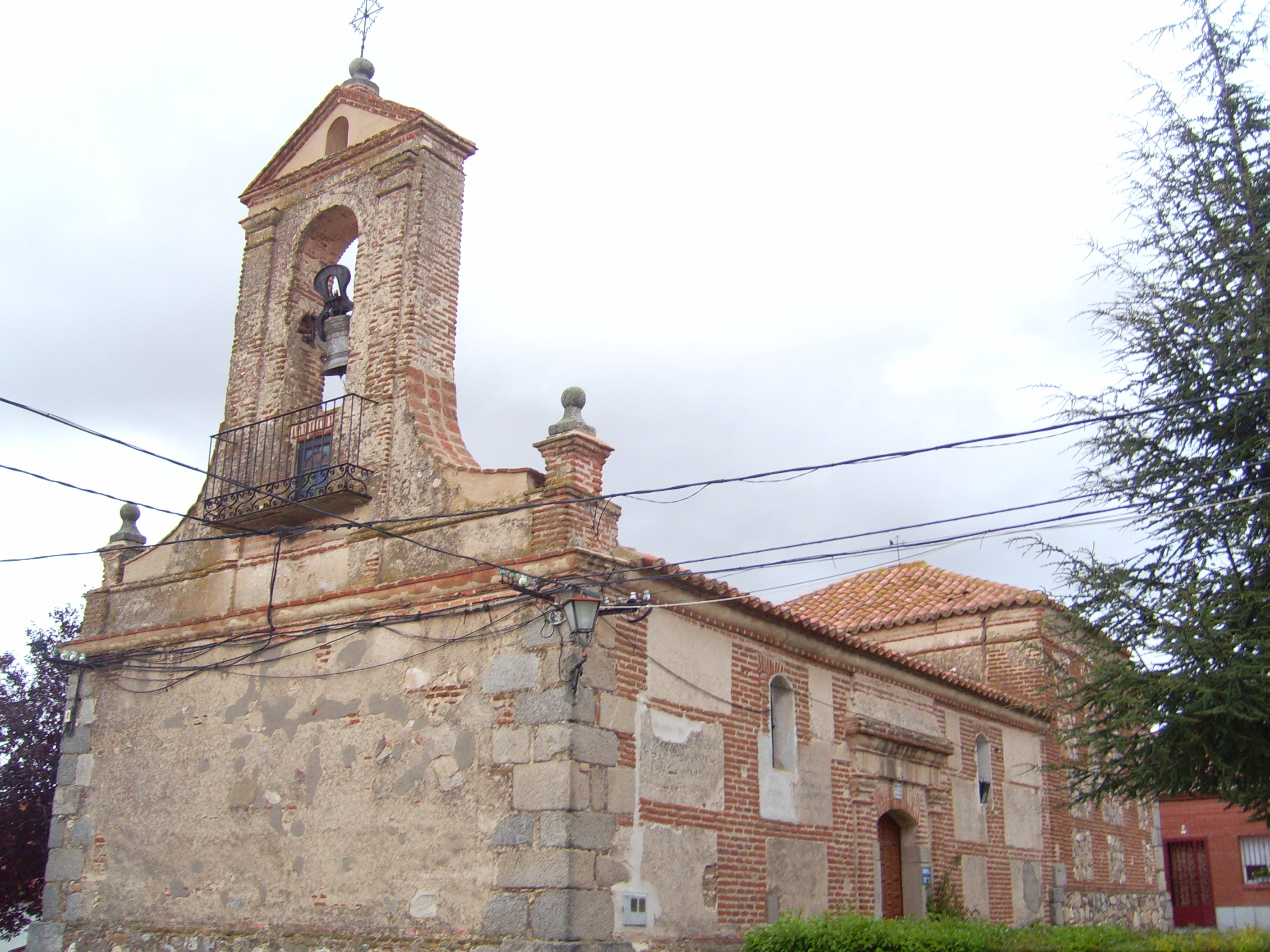 Church of Nuestra señora de la Concepción. Las Berlanas (Ávila, Spain)